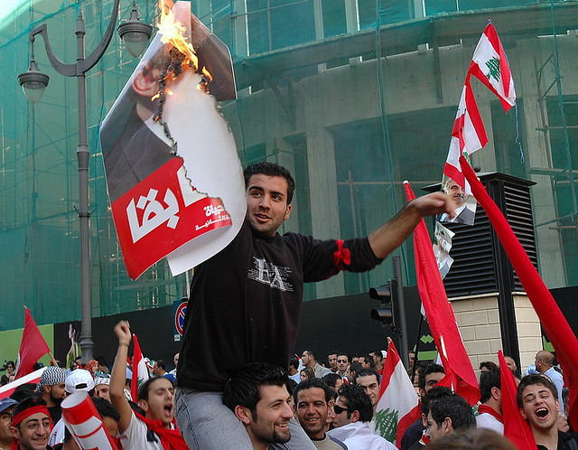 That's a poster of Lahoud he's burning. Lahoud is Lebanon's President.